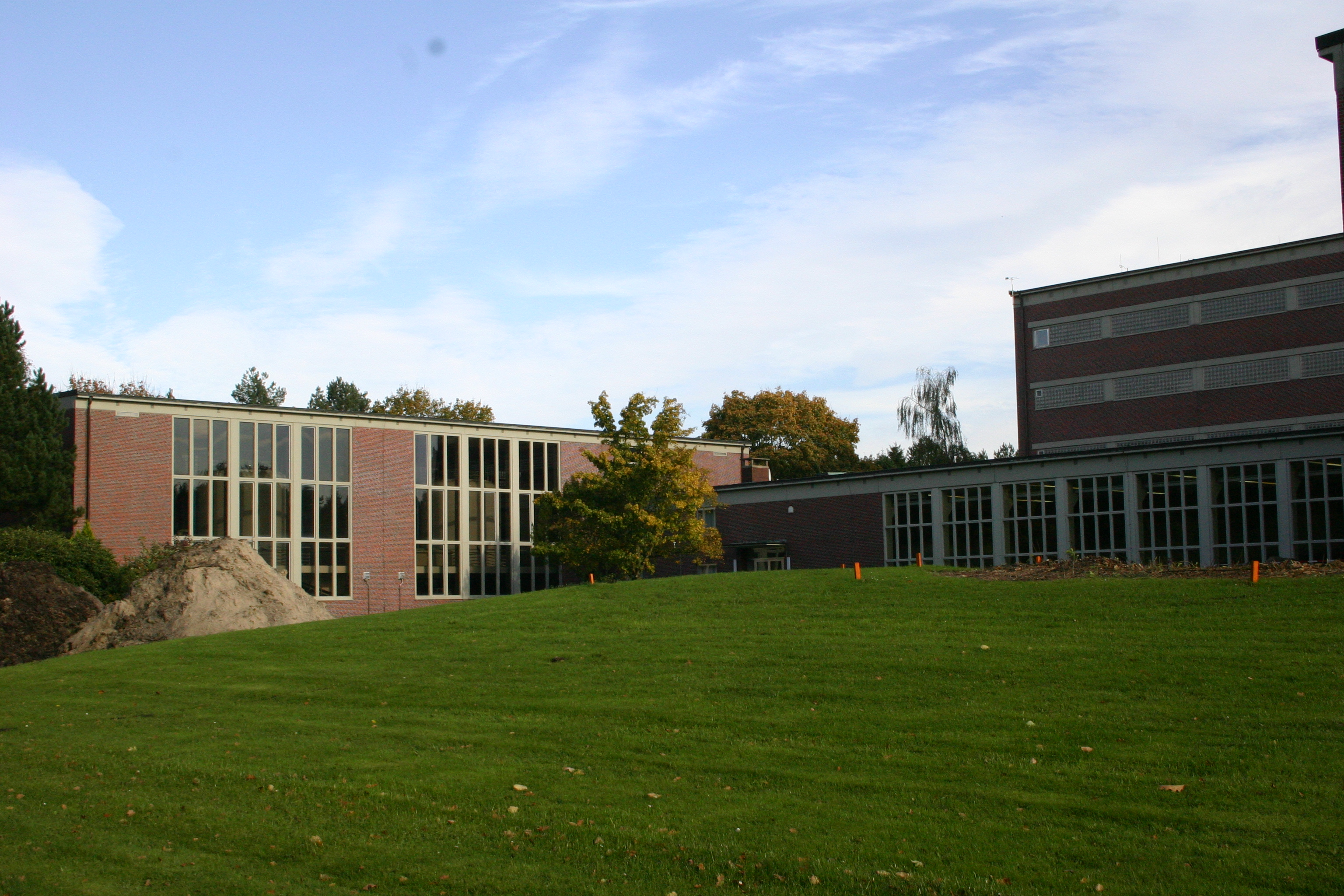 Harlingerland water works in Moorweg (district of Wittmund, East Frisia, Germany)